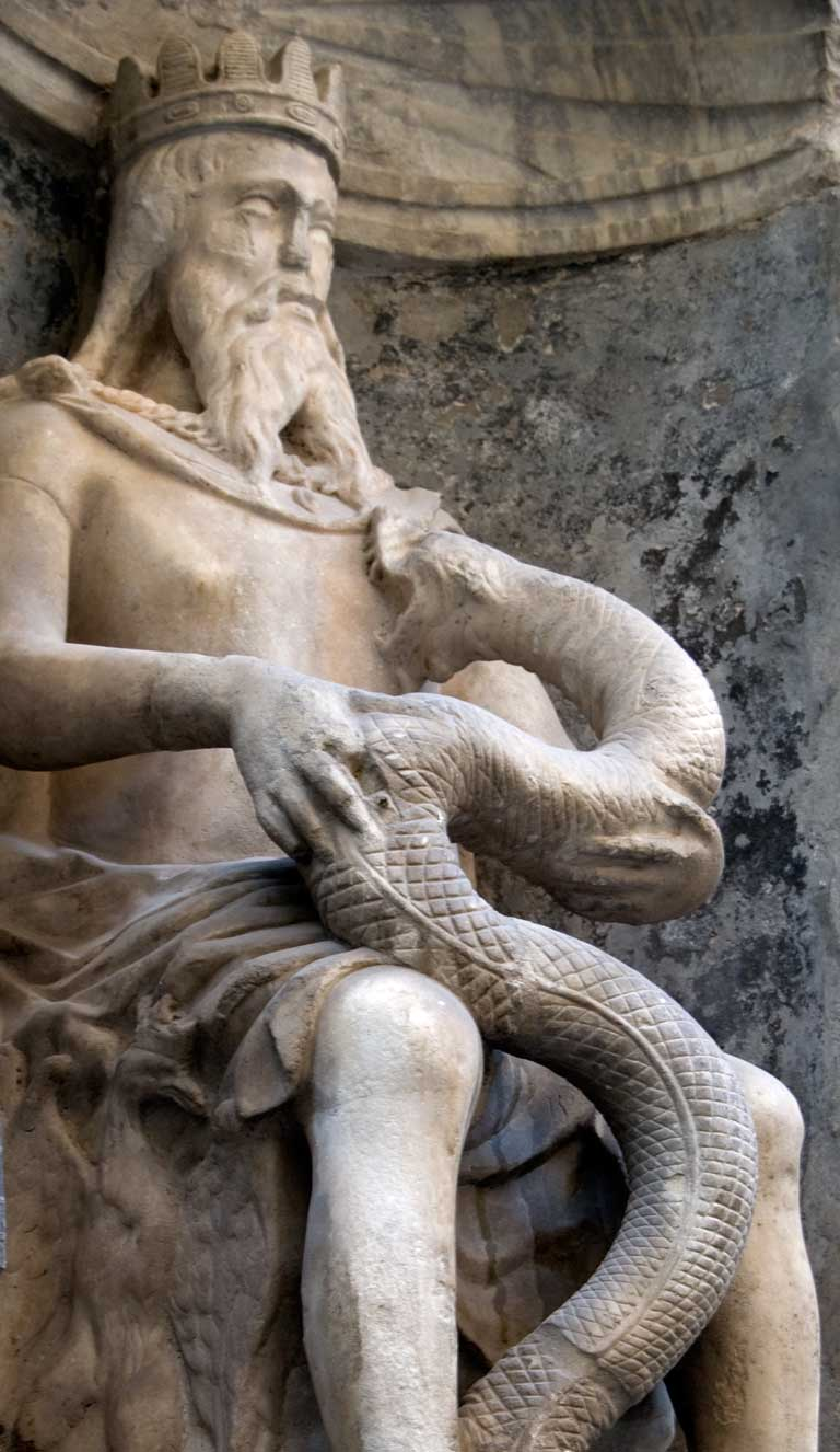 Pietro de Bonitate, Genio di Palermo (Palermu lu Grandi), marble, 1483. Piazzetta Garraffo, Palermo, Italy.